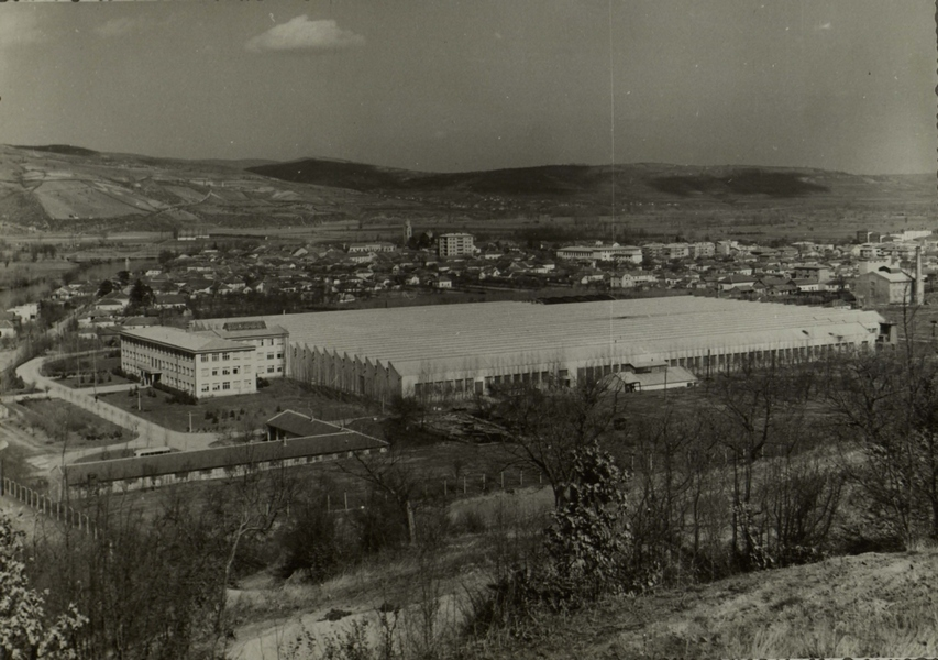 Factory Prva Petoletka Trstenik Српски (ћирилица): Фабрика Прва Петолетка Трстеник